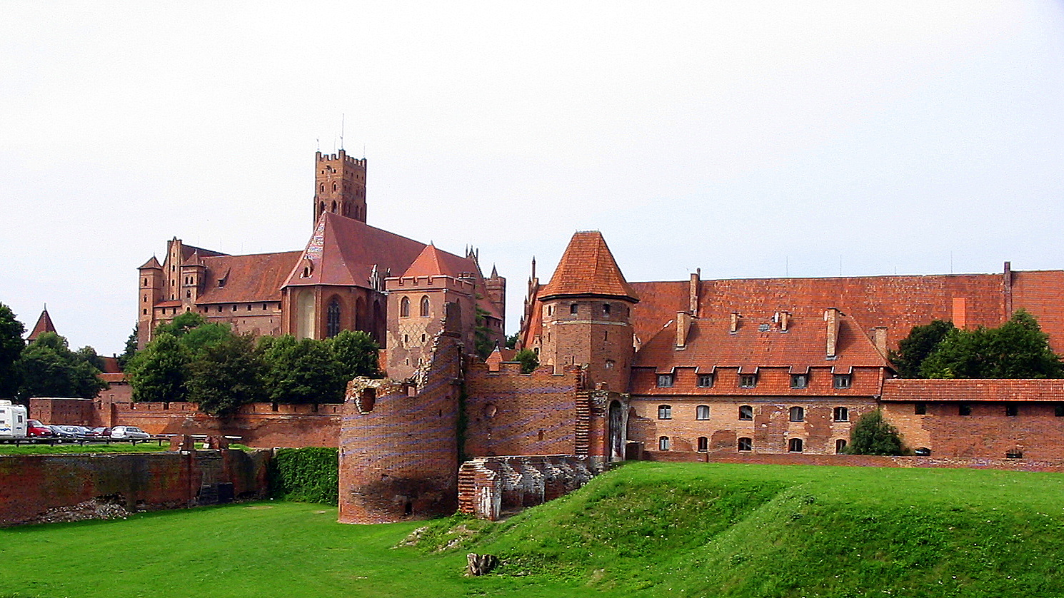 Malbork castle, Poland